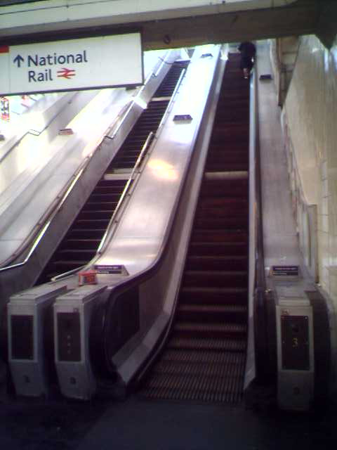 The last escalator with wooden clad steps on the London Underground network, at Greenford station on the Central Line.